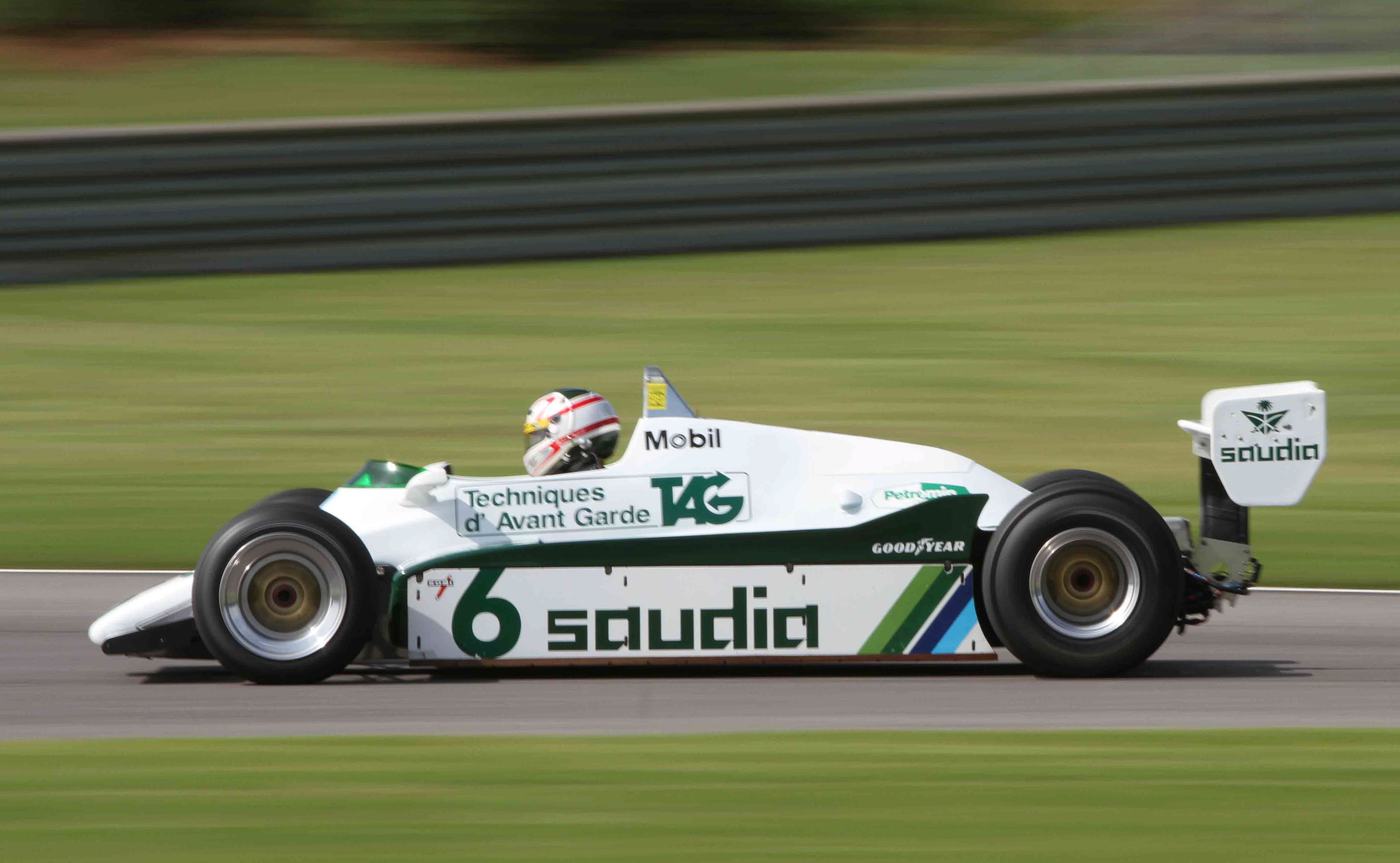 Williams FW08 at Barber Motorsports Park, 2010